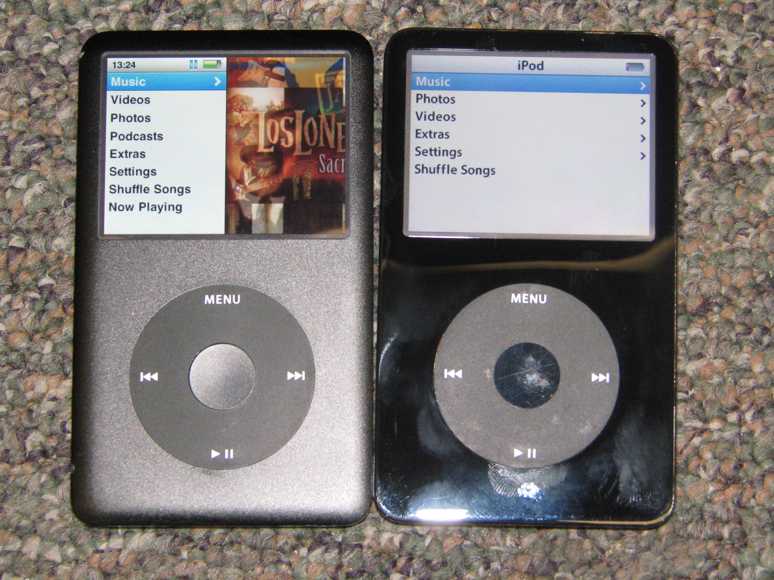 iPod classic side-by-side, 6th Gen (left)and 5th Gen (Right)